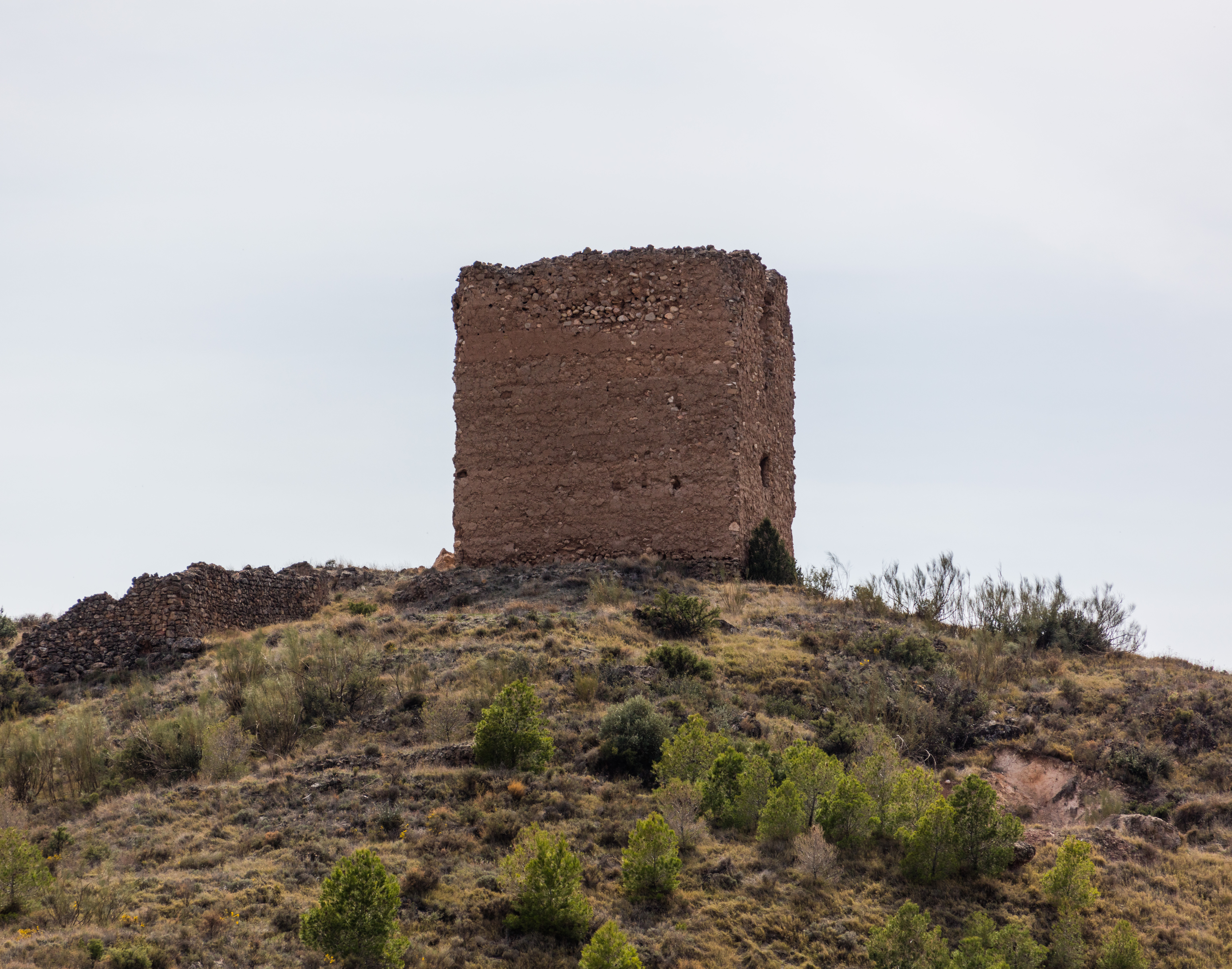 Torre de las Encantadas, Sabiñán, Zaragoza, Spain